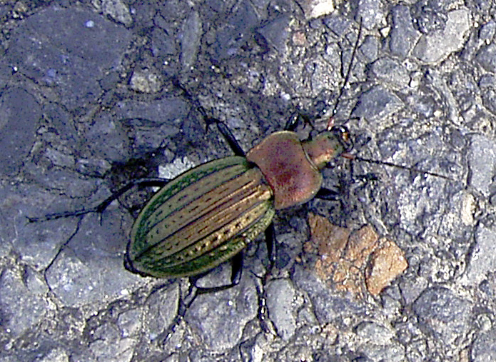 female Carabus cancellatus approx 10 km north from Cheb (Czech Republic) on a street